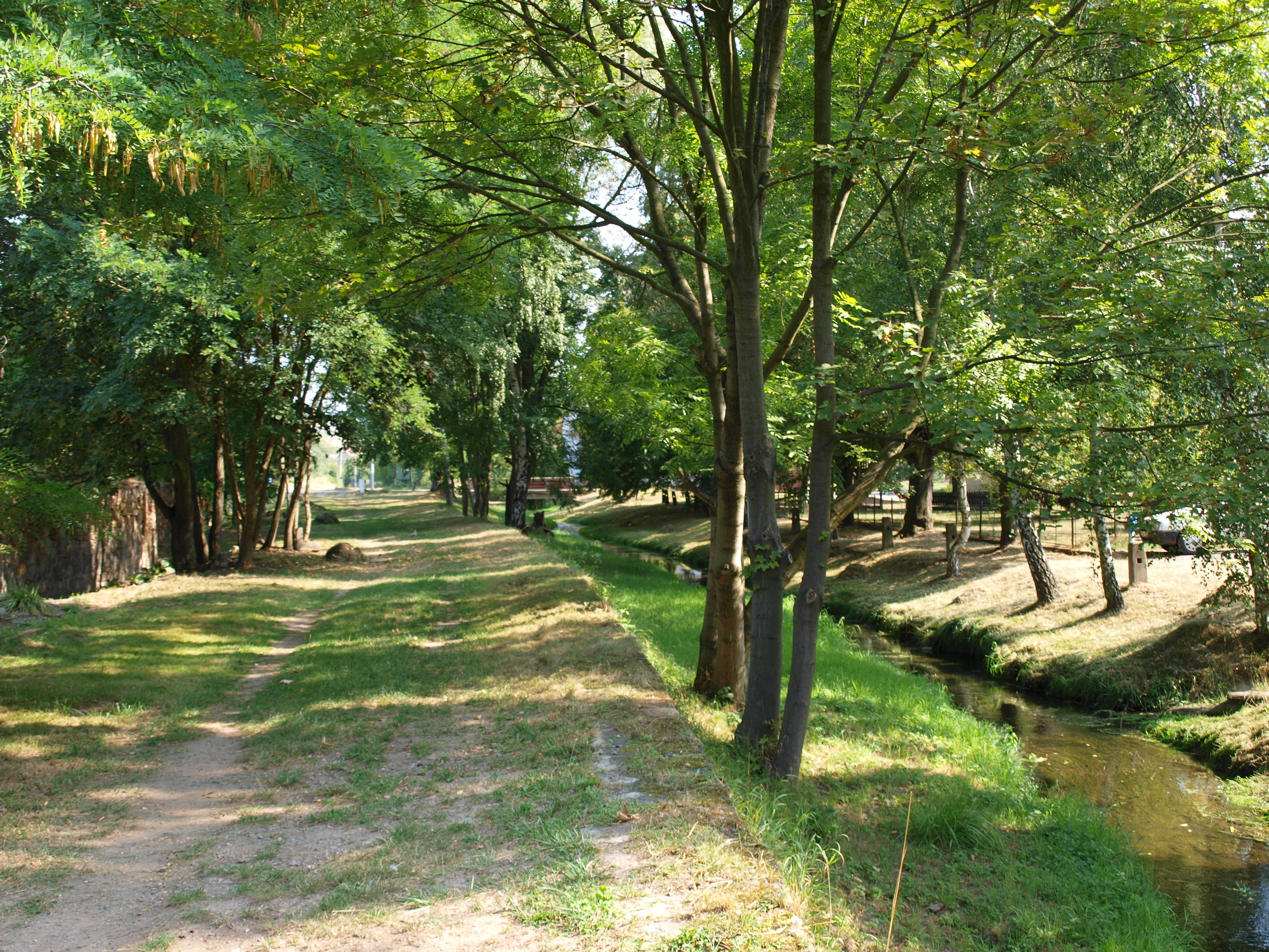 Rest of train track Zvoleněves – Kladno-Dubí (aley on left) and Knovízský potok brook, Podlešín, Kladno District, Czech Republic